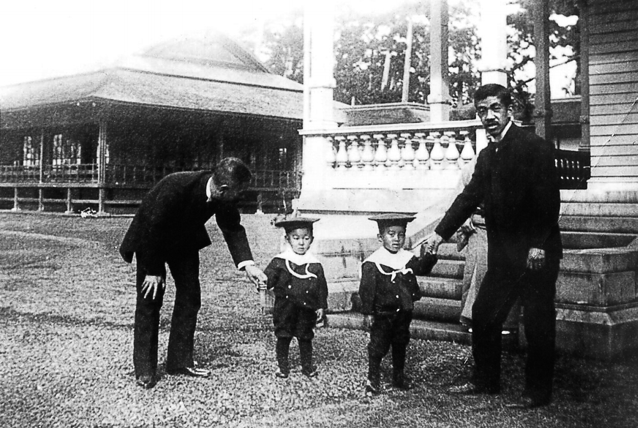 At the Aoyama Palace, Emperor Taishô (Yoshihito) (right) goes for a walk with his sons, the Prince Regent (Hirohito) and Prince Chichibu (Yasuhito).